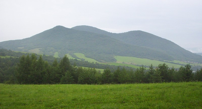 Busov - the highest mountain in Beskid Niski (Carpathian Mountanins, Slovakia). View from Polish-Slovak borderline. Peaks from the left: mountain 914, Busov (1002), Vrch Suchej (897).